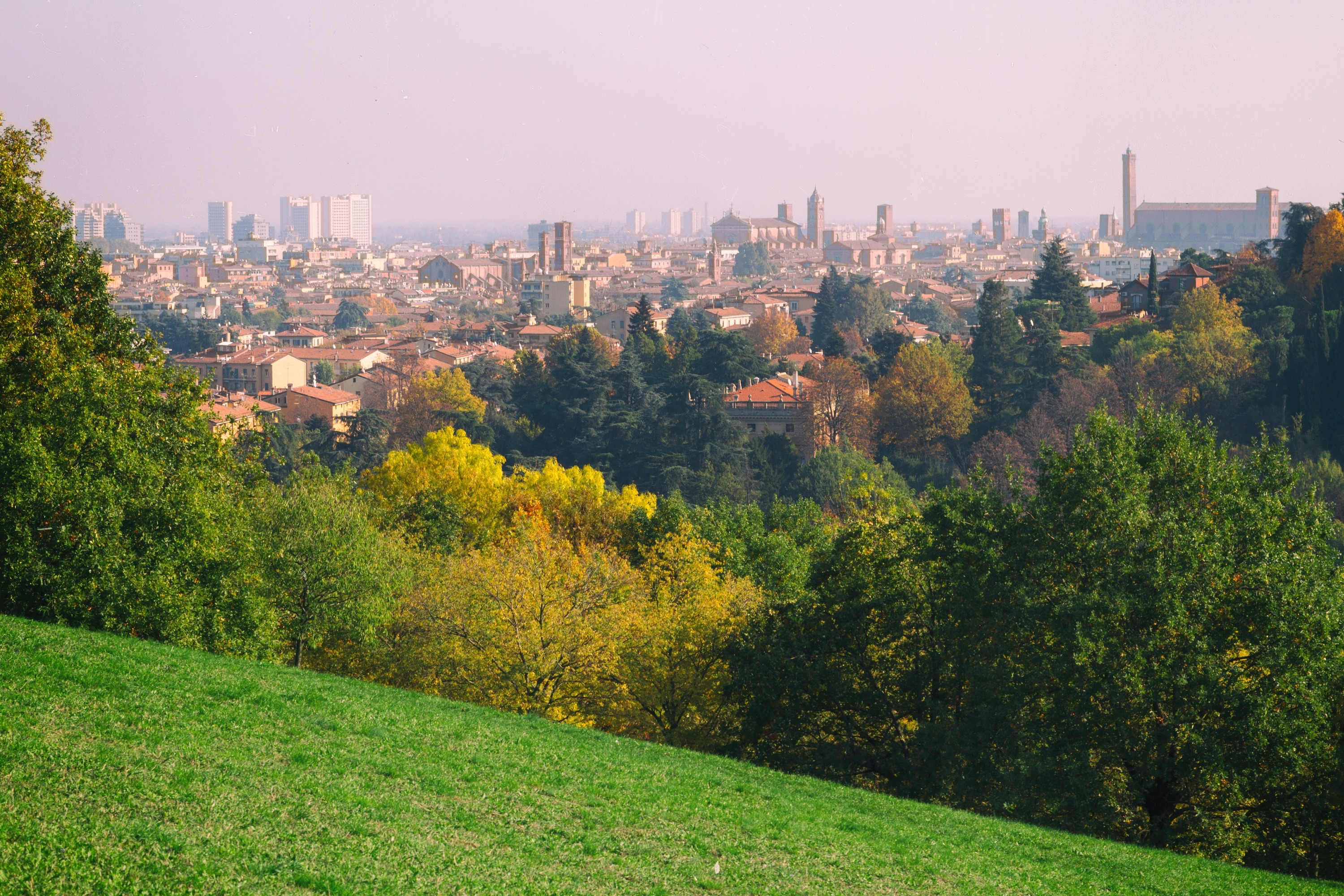 This is a photo of a monument which is part of cultural heritage of Italy.